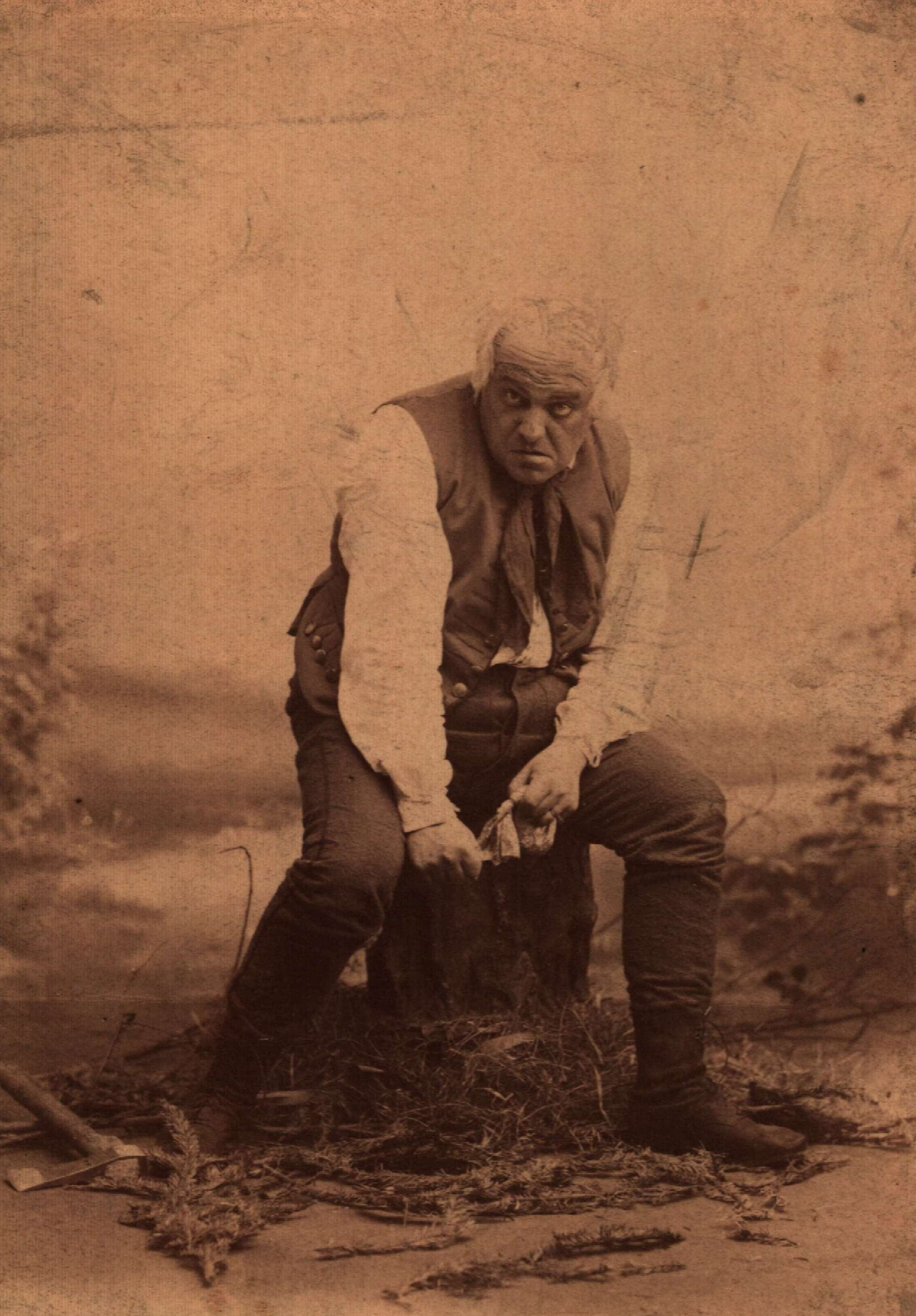 Josef Šmaha (1848-1915)